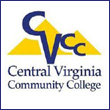 Central Virginia Community College Logo